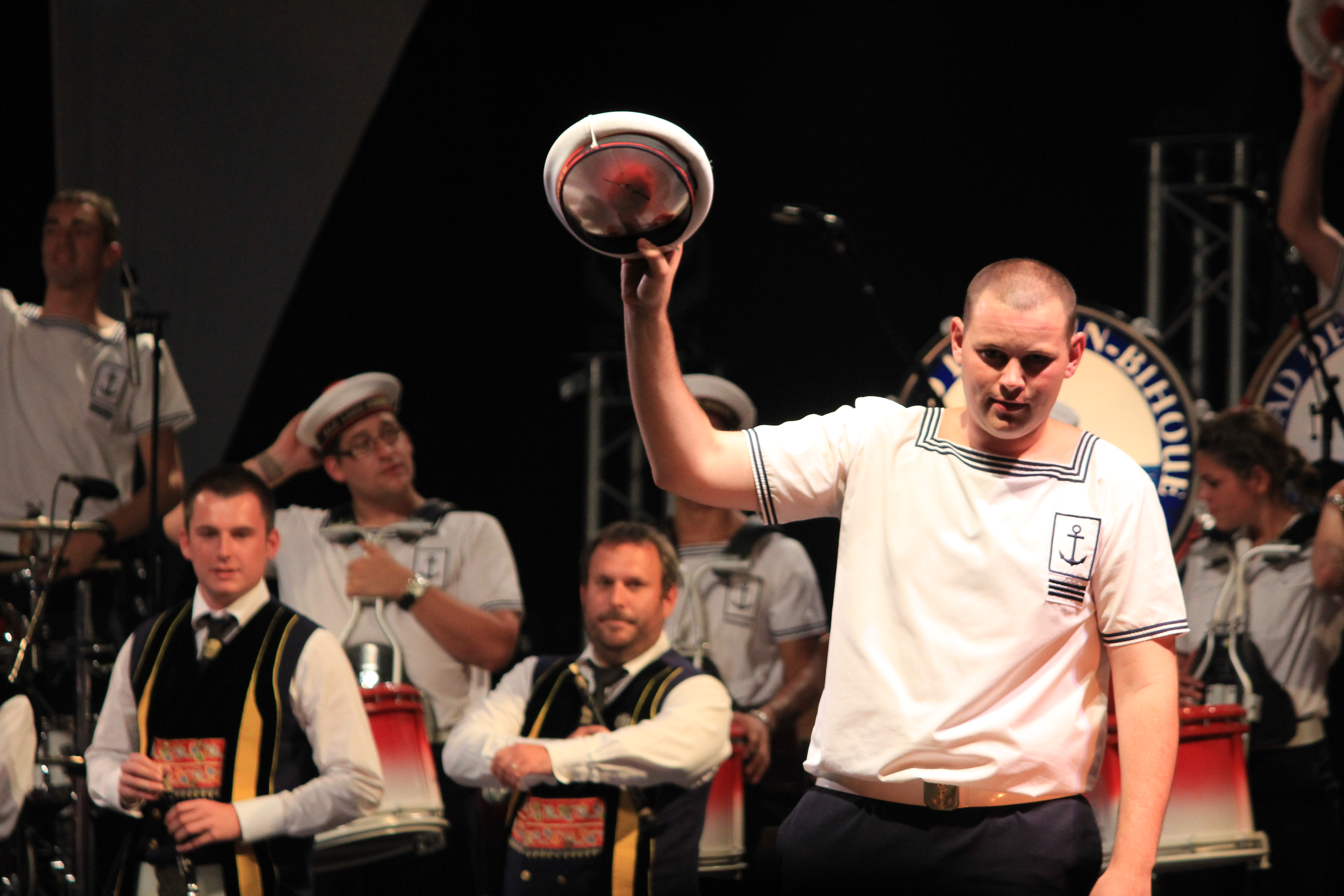 Yann Péron, pipe-major of the Bagad de Lann-Bihoue's in 2012 during Lorient Interceltic festival.